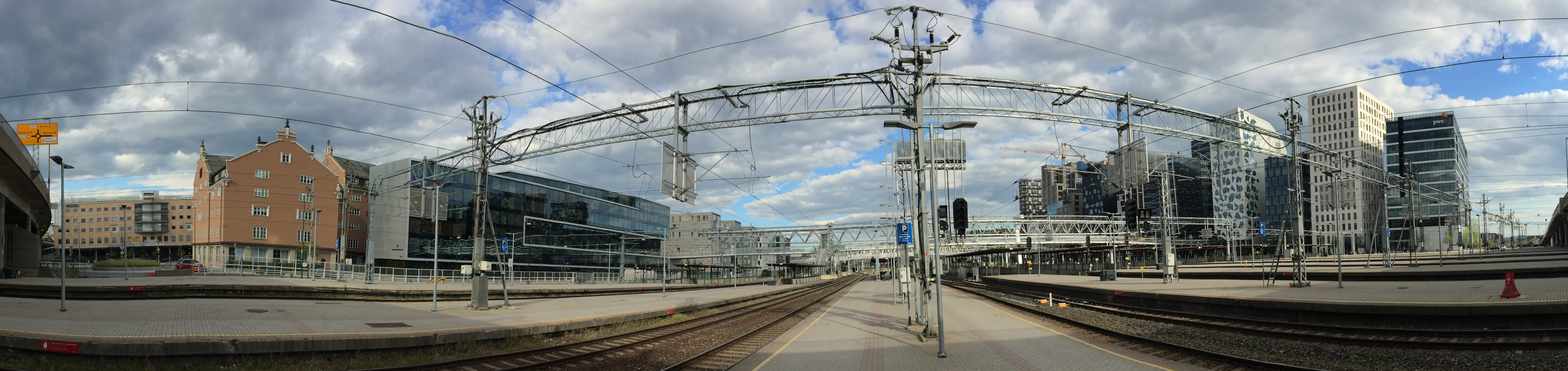 Oslo Central Station and Bjørvika Barcode, Norway 12th June, 2015. (iPhone5 panoramic view; distortion may occur in details and continuity.) Bjørvika Barcode